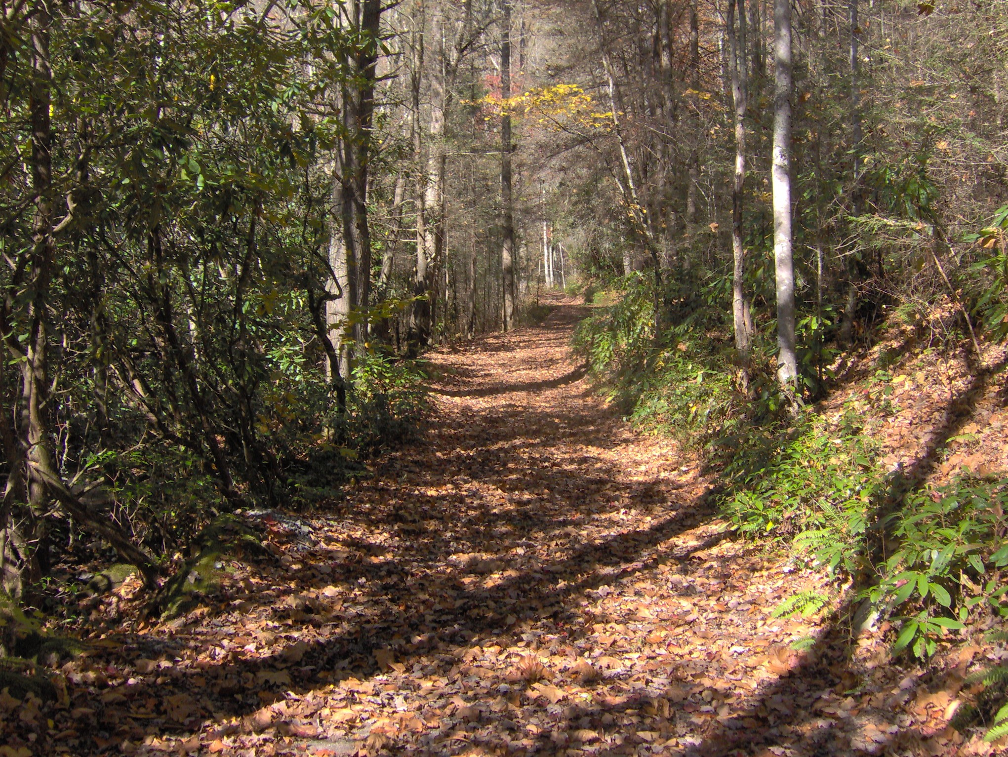 The Bone Valley Trail near Hazel Creek in the Great Smoky Mountains of North Carolina, located in the Southeastern United States. Bone Valley is one of the most remote sections of the park, being a 15-mile hike from the nearest parking lot, or 7 miles if ferrying to Hazel Creek from Fontana. According to local legend, an entire herd of cattle froze here during an unexpected blizzard in the Spring of 1888, leaving bones scattered throughout the valley for years.